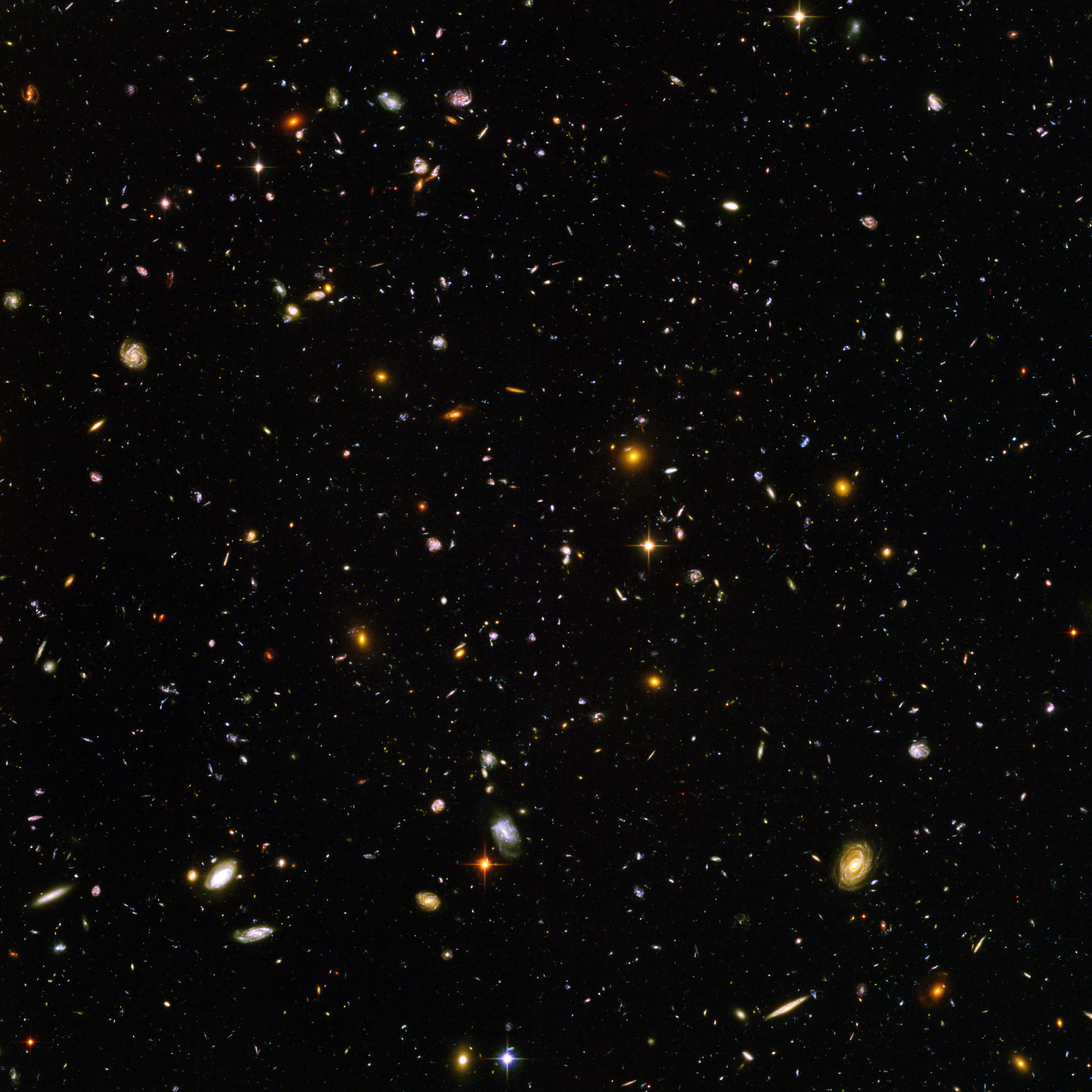 The Hubble Ultra Deep Field, is an image of a small region of space in the constellation Fornax, composited from Hubble Space Telescope data accumulated over a period from September 3, 2003 through January 16, 2004. The patch of sky in which the galaxies reside was chosen because it had a low density of bright stars in the near-field.